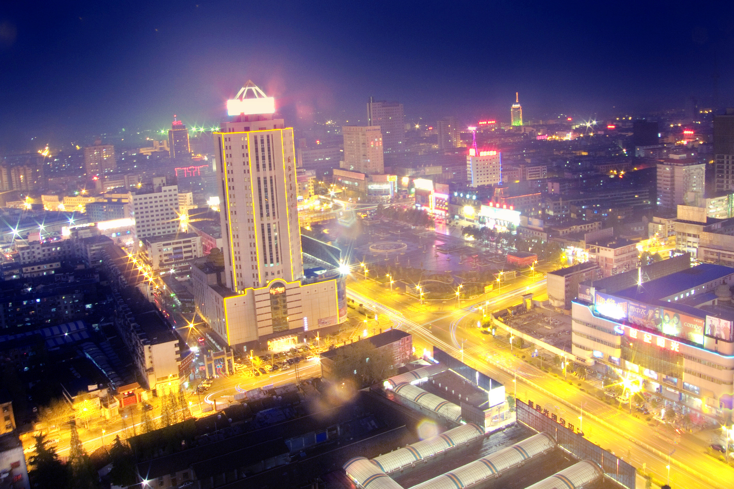 Hanzhong Night Panorama,HDR. Taken with a DC--fujis6500fd 中文（中国大陆）: 汉中北部夜景，2009年3月，富士s6500fd,三次不同曝光组合